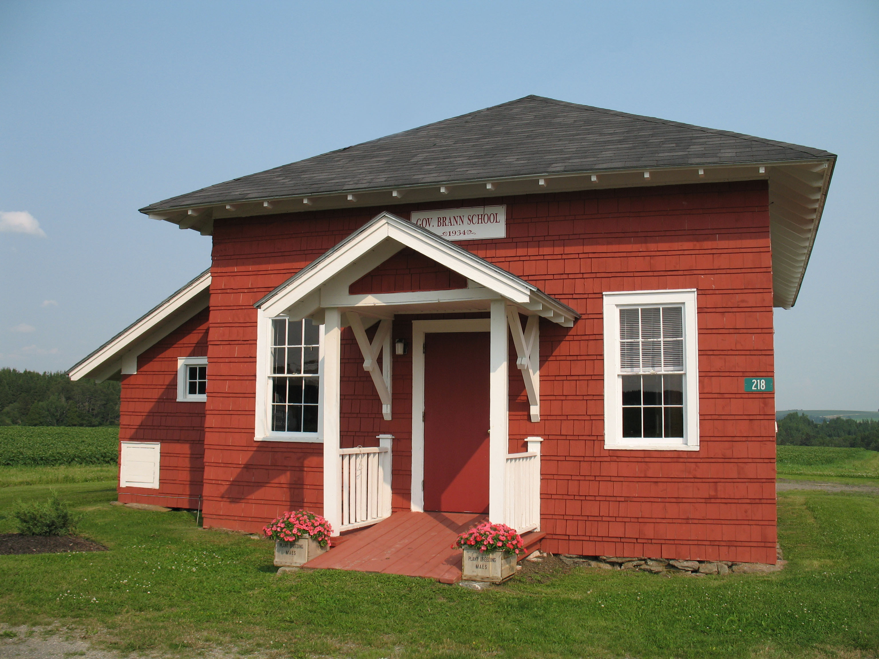 The Governor Brann School in Cyr Plantation, Maine. Building is incorrectly listed as being in Van Buren on the National Register.